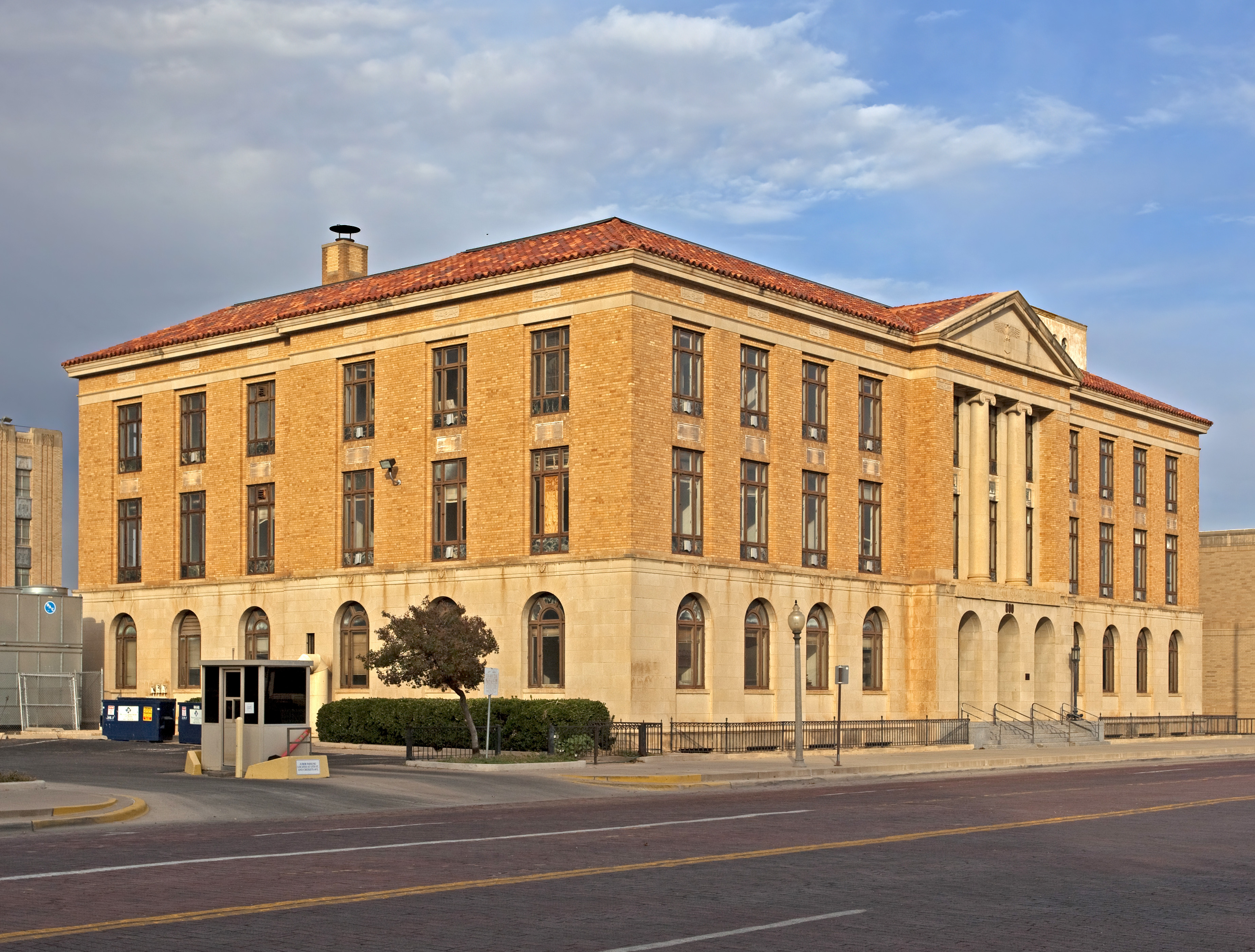 The original Federal Courthouse at 800 Broadway, Lubbock, Texas. Also called the the old Lubbock Post Office and Federal Building, the three-story building was constructed in 1932 at a cost of $4.7 million and was recently sold for $425,000.